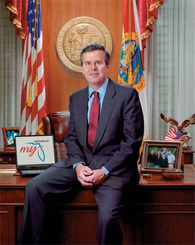 Official photo of former Florida Governor Jeb Bush